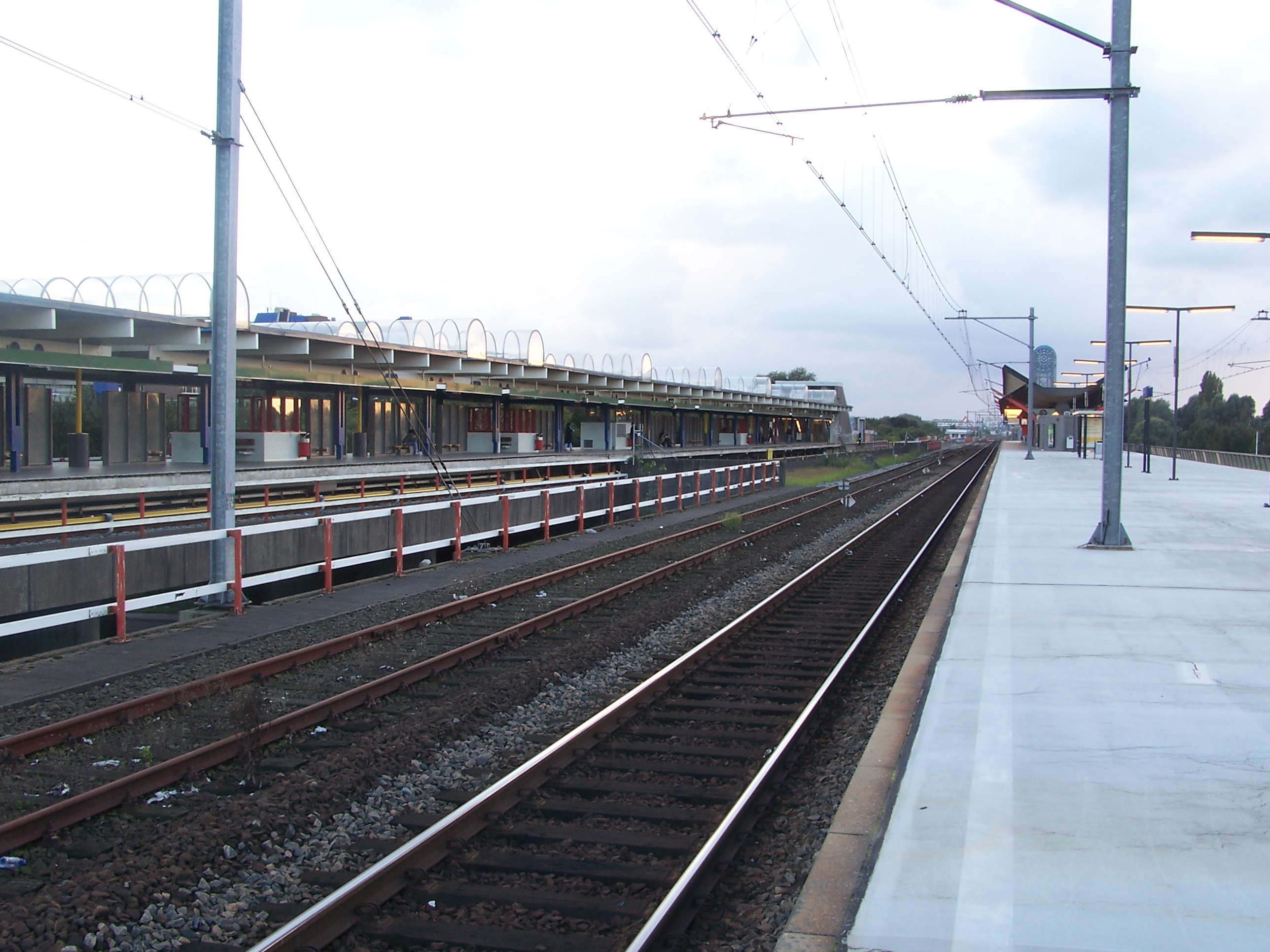 Station Diemen-Zuid, a train station in Diemen, a suburb of Amsterdam in the Netherlands. Author:Mig de Jong